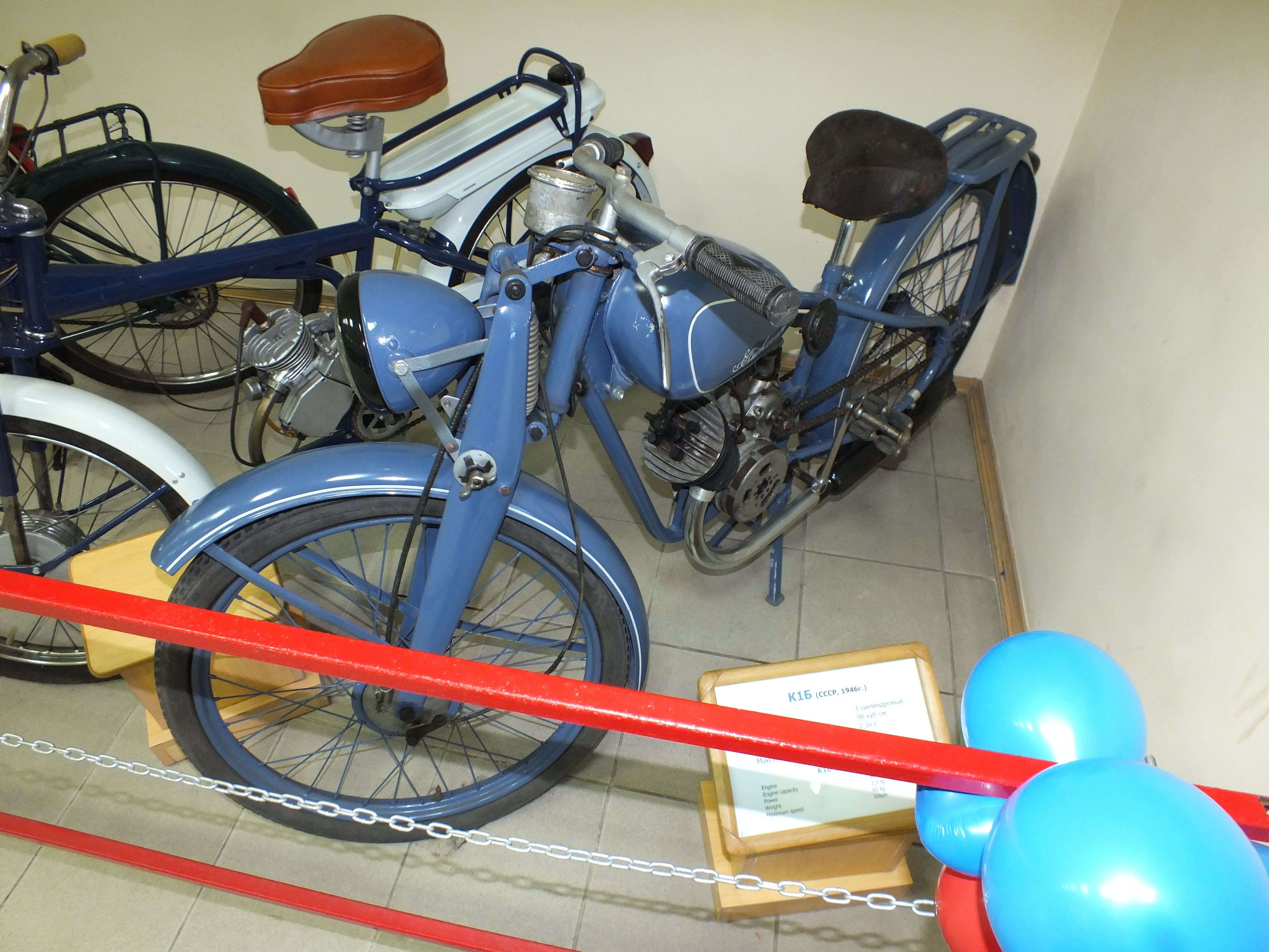 Motorcycles of Ukraine